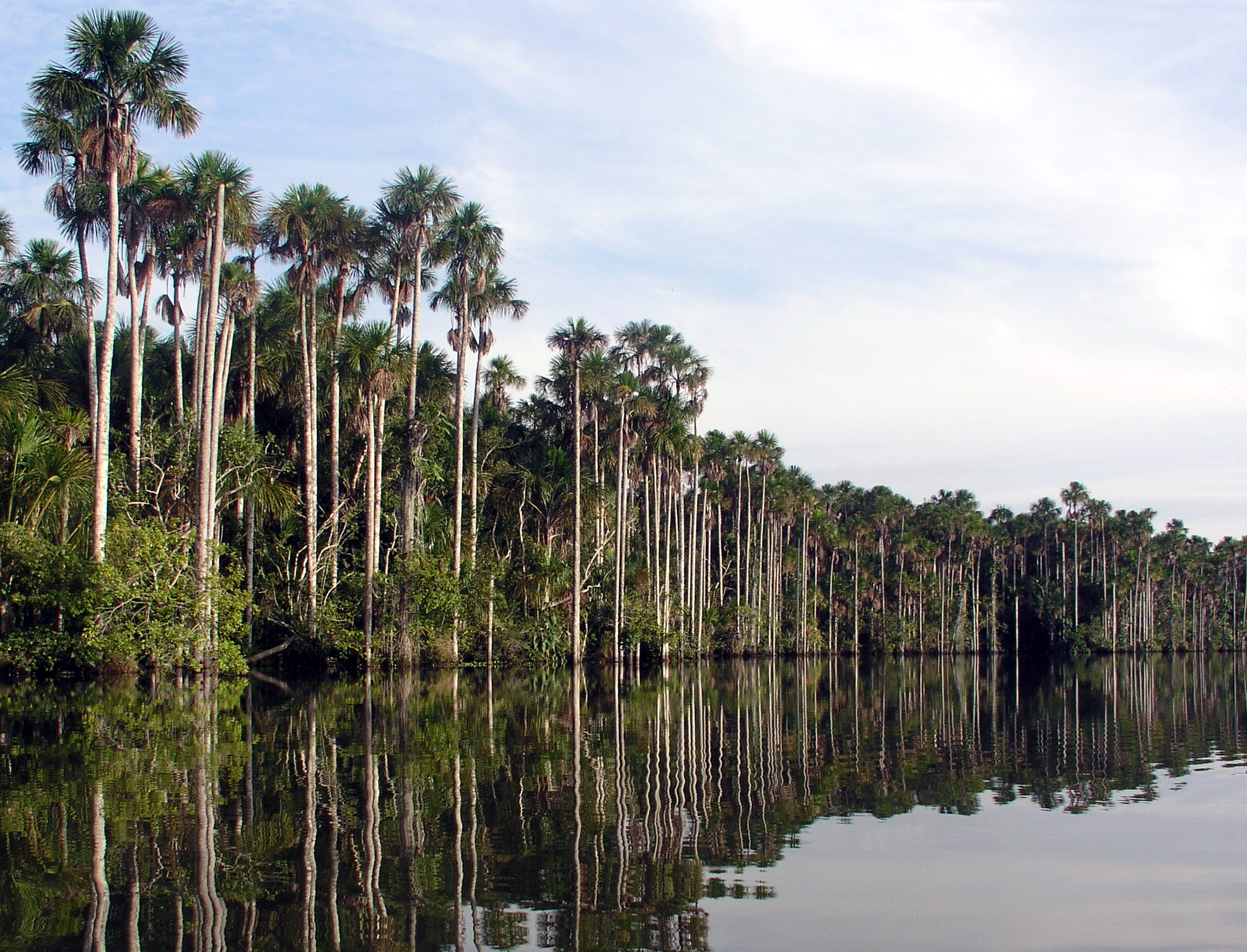 Puerto Maldonado, Lago Sandoval, Peru. The photo was taken in the end of July 2004 by Håkan Svensson (Xauxa)